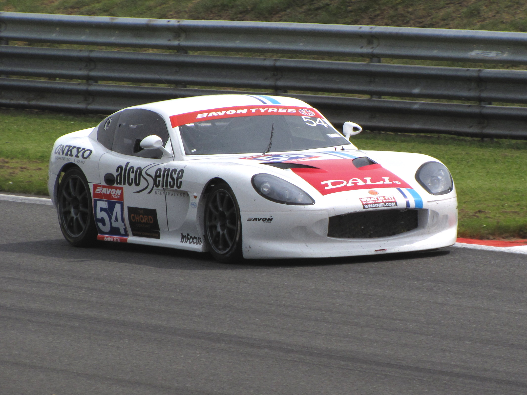 Ginetta GT4 of Hunter Abbott and Gary Simms in Spa 2009.